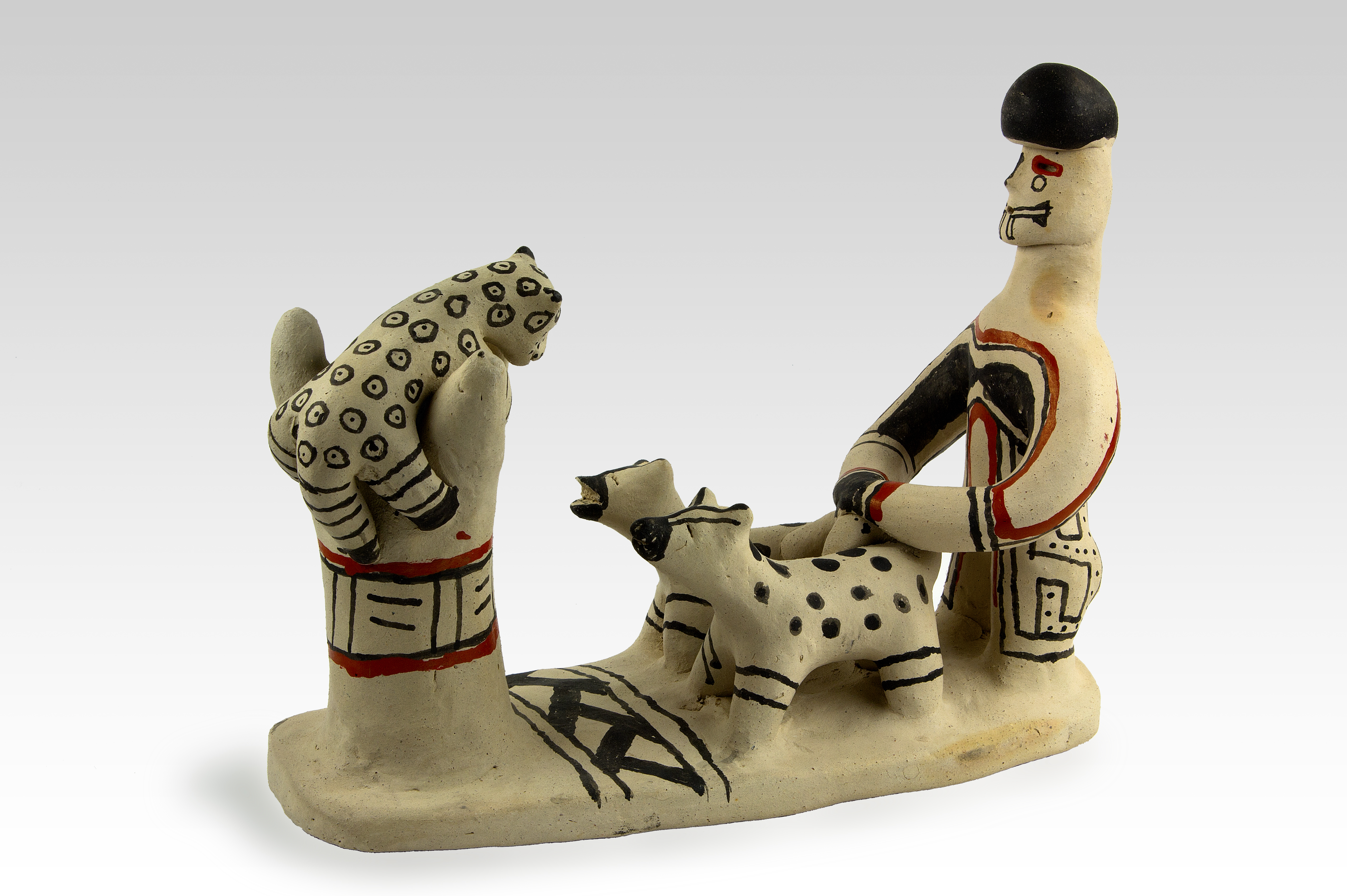 Hunter with dogs and jaguar size : 14,8 x 8,5 x 18,5 cm material : clay technique : ceramic